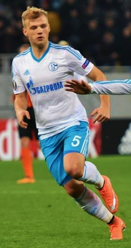 Johannes Geis